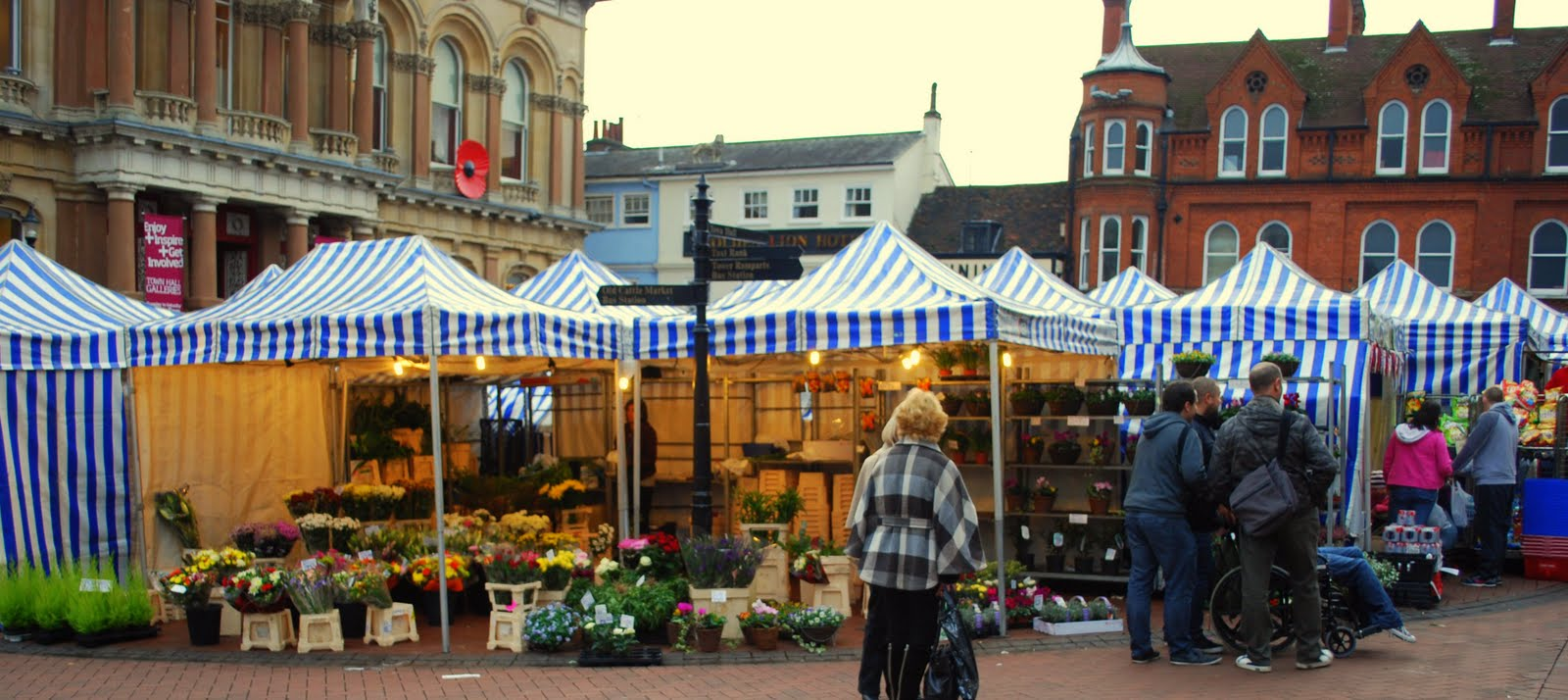 Ipswich Market day at Town Centre